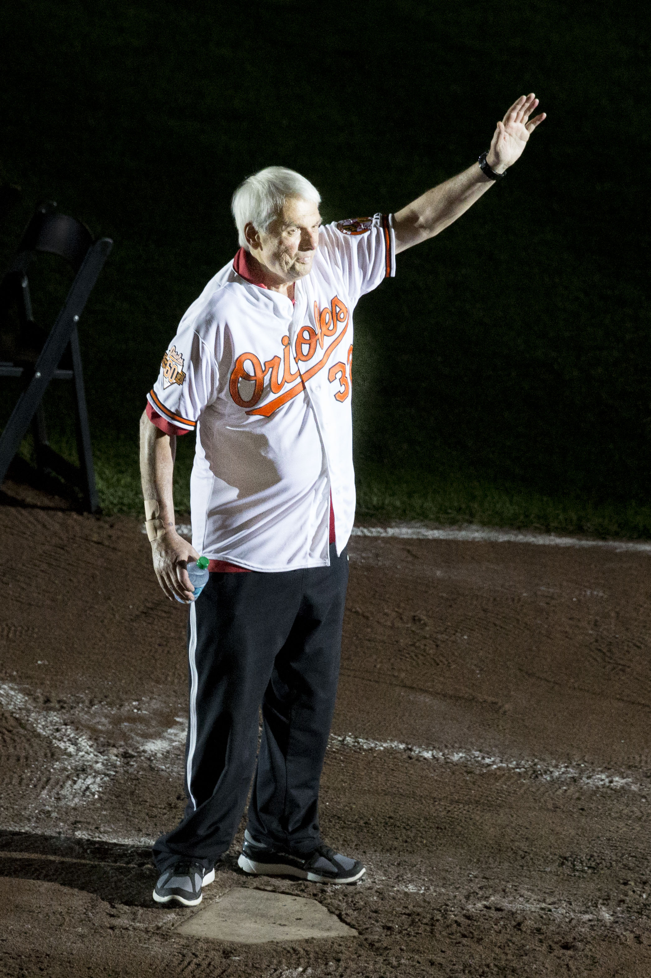 Milt Pappas at Camden Yards in Baltimore on August 8, 2014